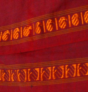 Traditional "mango" shapes (paisley) in a border on a cotton sari, seen from either side of the cloth.